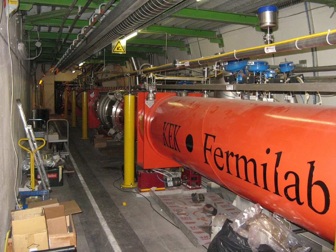 Large Hadron Collider quadrupole magnets for directing proton beams to interact. These superconducting quadrupole electromagnetas were made in Fermilab.LHC - 2